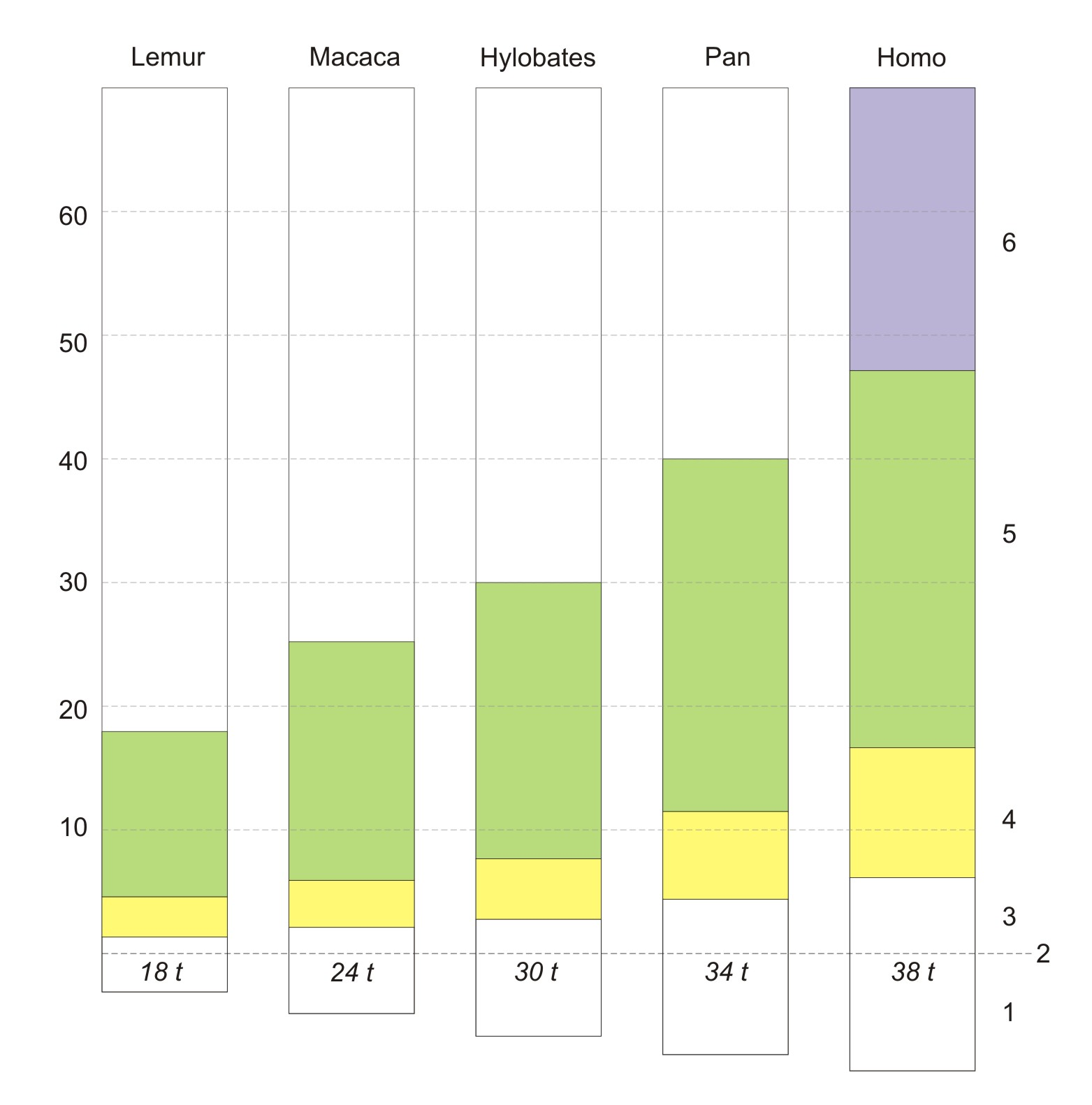 Primate ontogeny: 1 - Gestation; 2 - Birth; 3 - Infancy; 4 - Subadult; 5 - Adult; 6 - Post reproduction